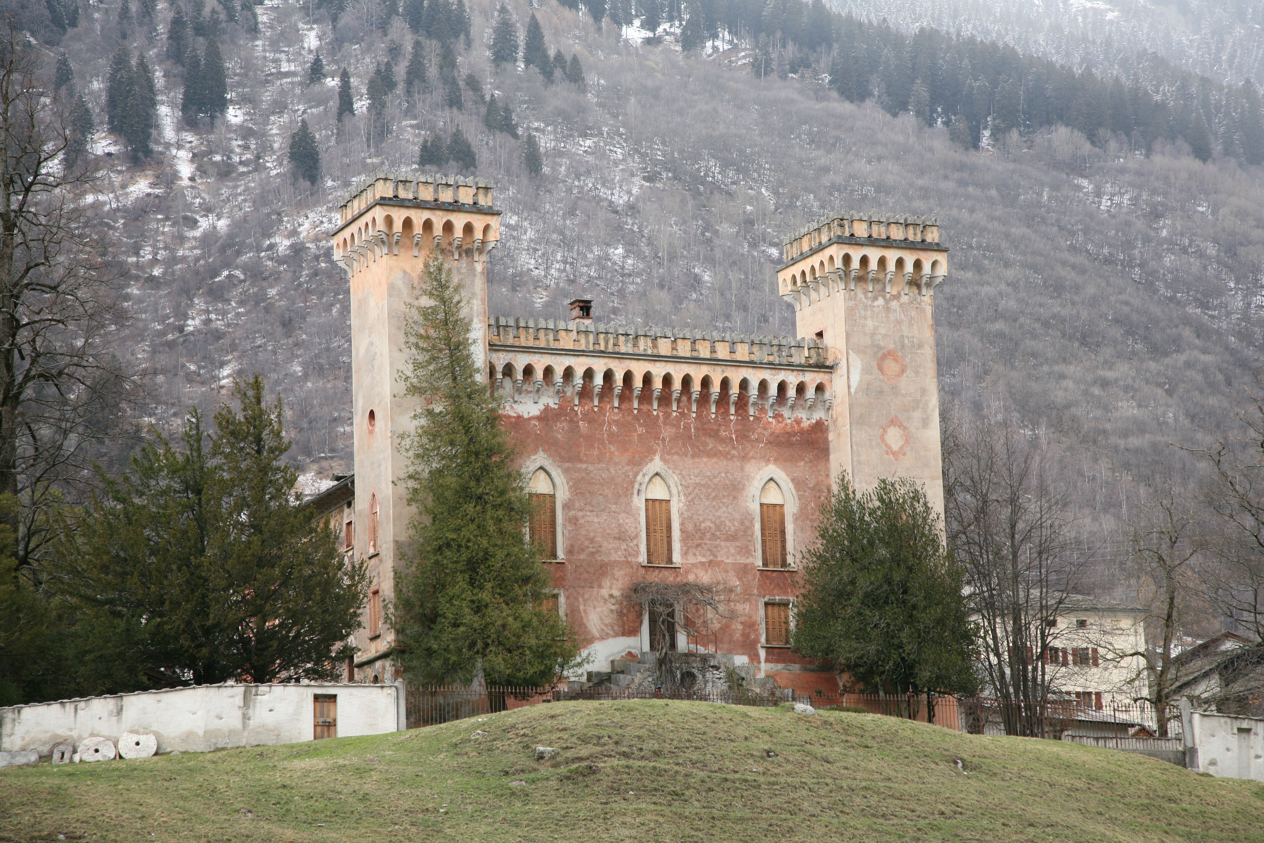 Palazzo Castelmur in Coltura, Switzerland